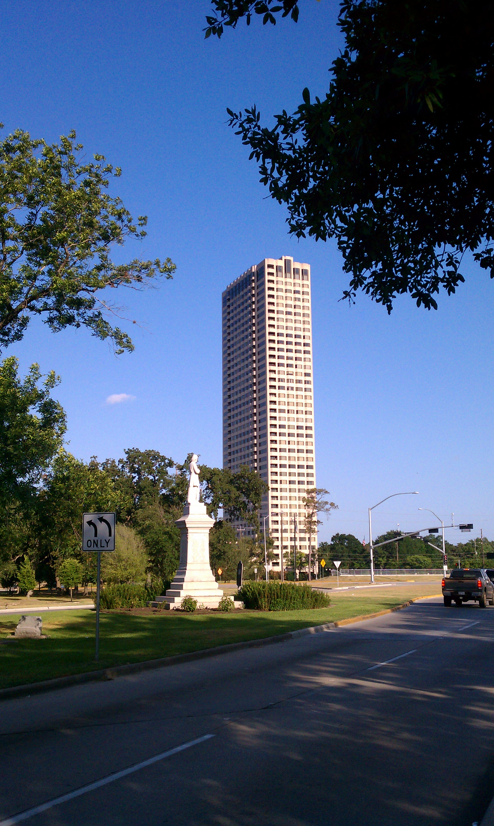 This is a picture of the Spires. This is the tallest building in Hermann Park. It is located at 2001 Holcombe, Houston, TX 77030